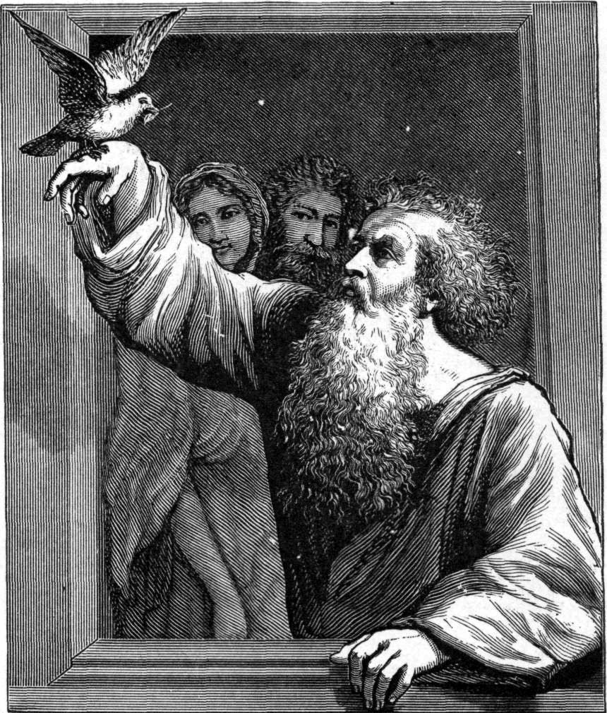 Noah sent out this dove